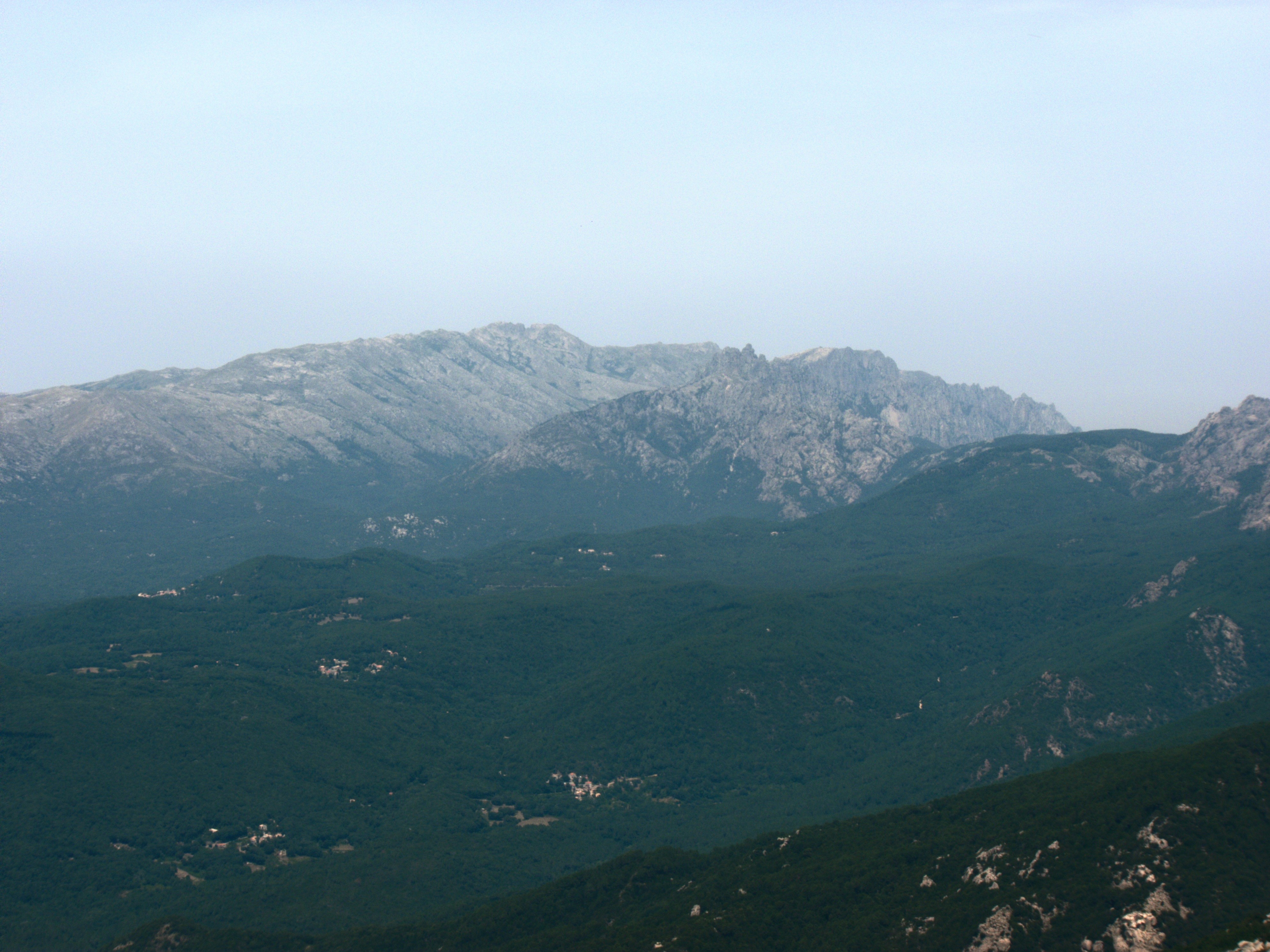 Monte Incudine (2134 m, highest summit in the southern quarter of Corsica) and the Bavella needles (1855 m), seen from the Punta di a Vacca Morta.